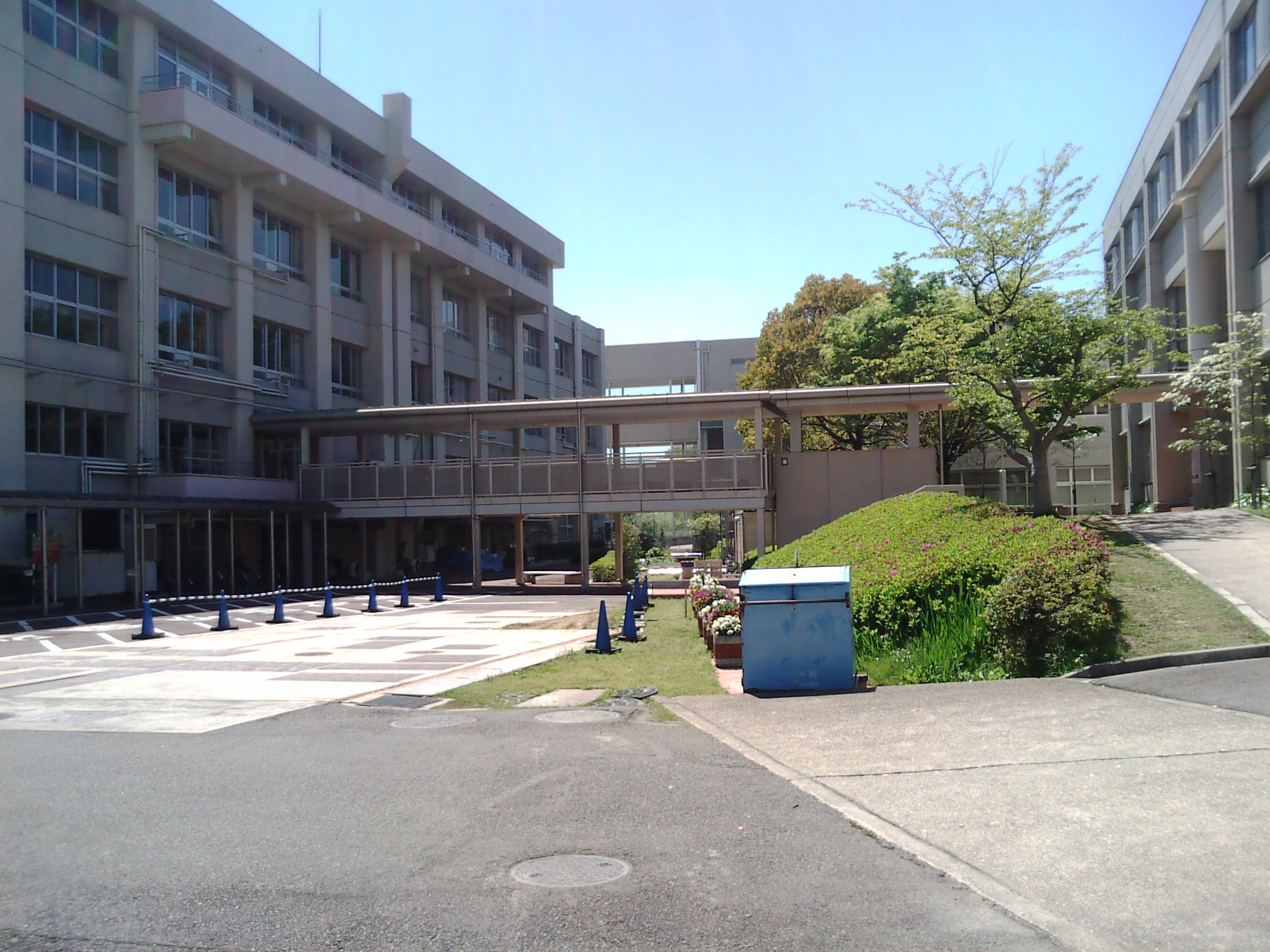 Nagoya Sangyo Univ. & Nagoya Management Junior College Building No.1&3